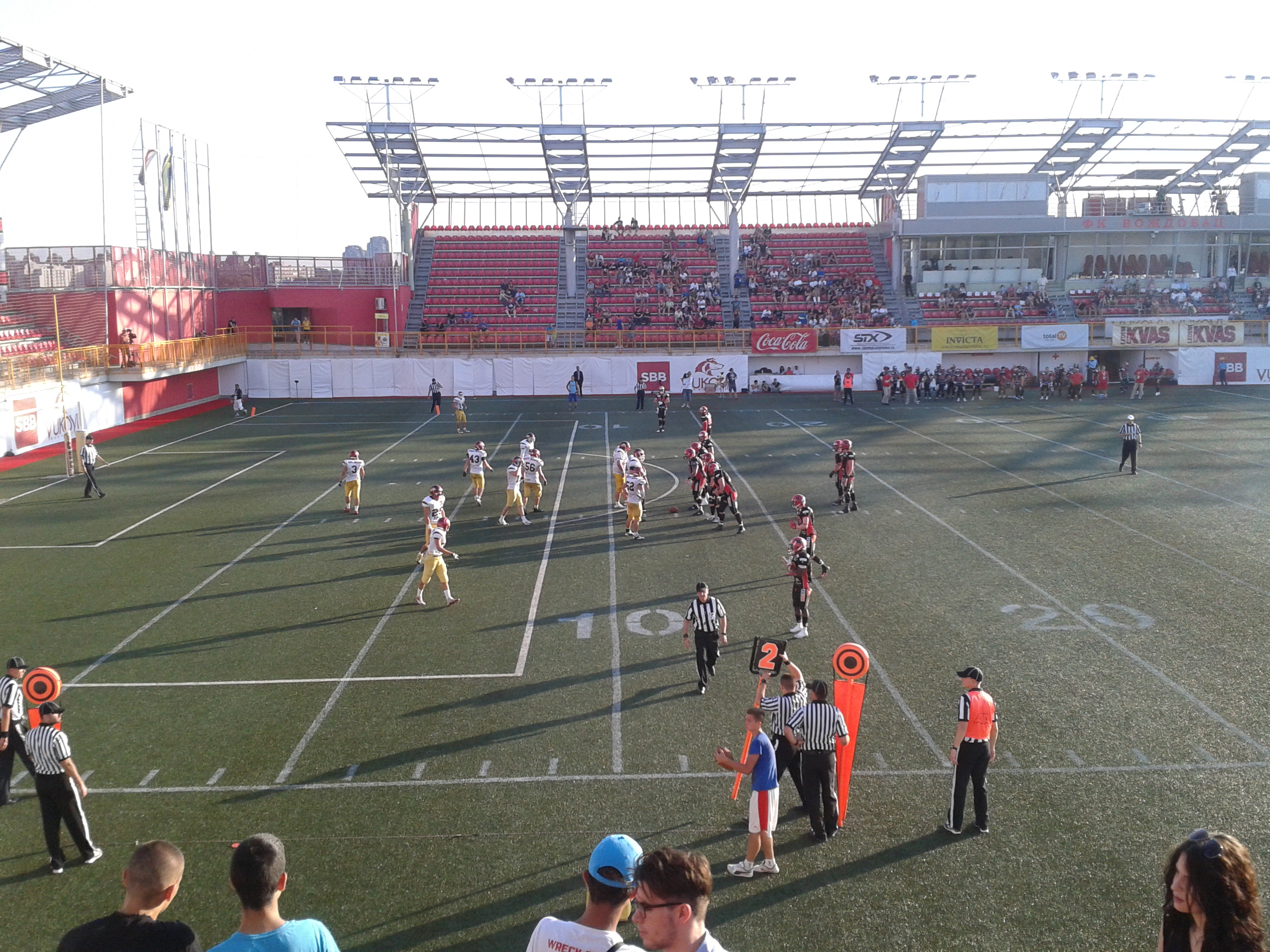 IFAF Champions League 2015 Final, Vukovi Beograd - Carlstad Crusaders